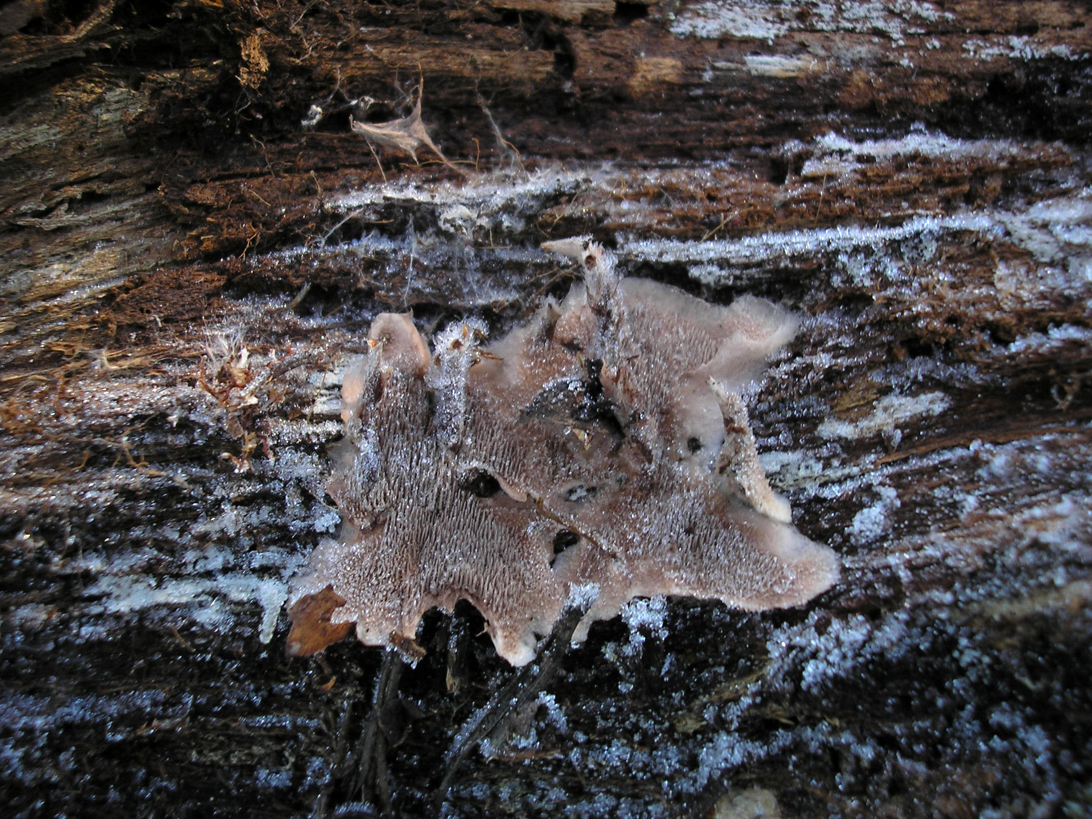 A rare mushroom that grows attached to the underside of decaying logs and can only be found by turning over logs. Presumably it uses wood decaying insects to spread its spores.